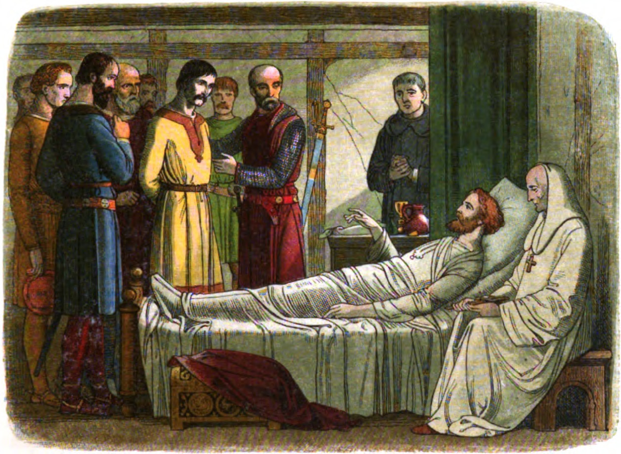 Lying on his deathbed, Richard I pardons the archer who had shot him.